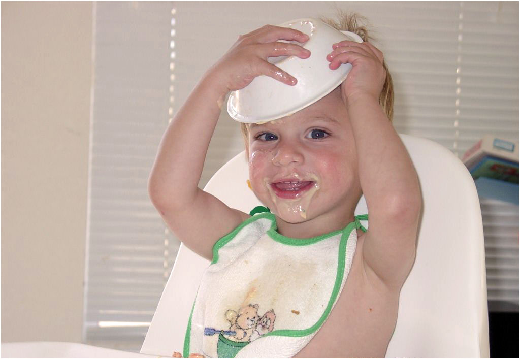 Infant of twelve months eating. Please use my photography as you wish and feel free to submit comments to